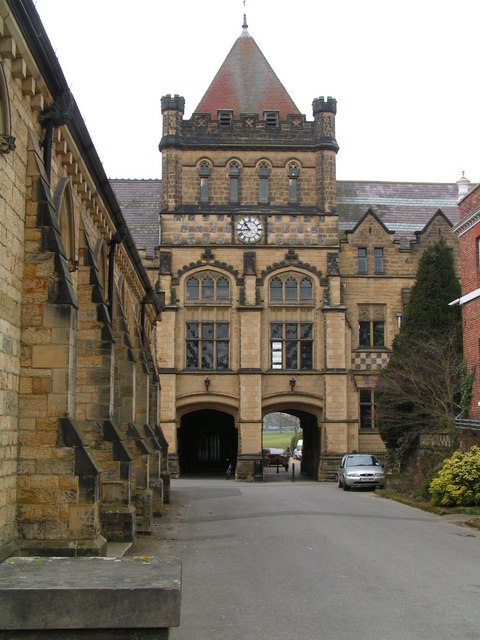 Tonbridge school. Boys Public School.